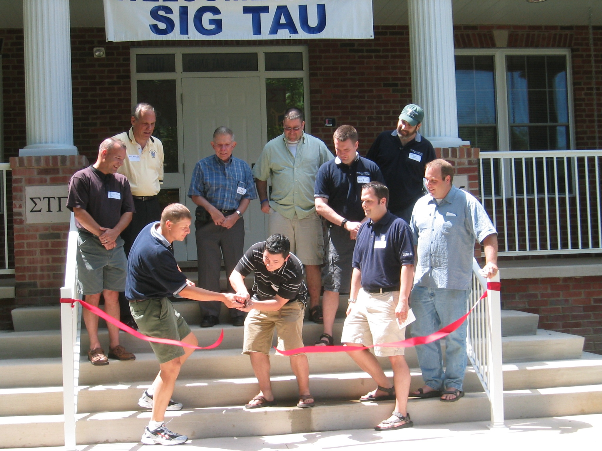 Ribbon Cutting of Chapter House at Penn State.